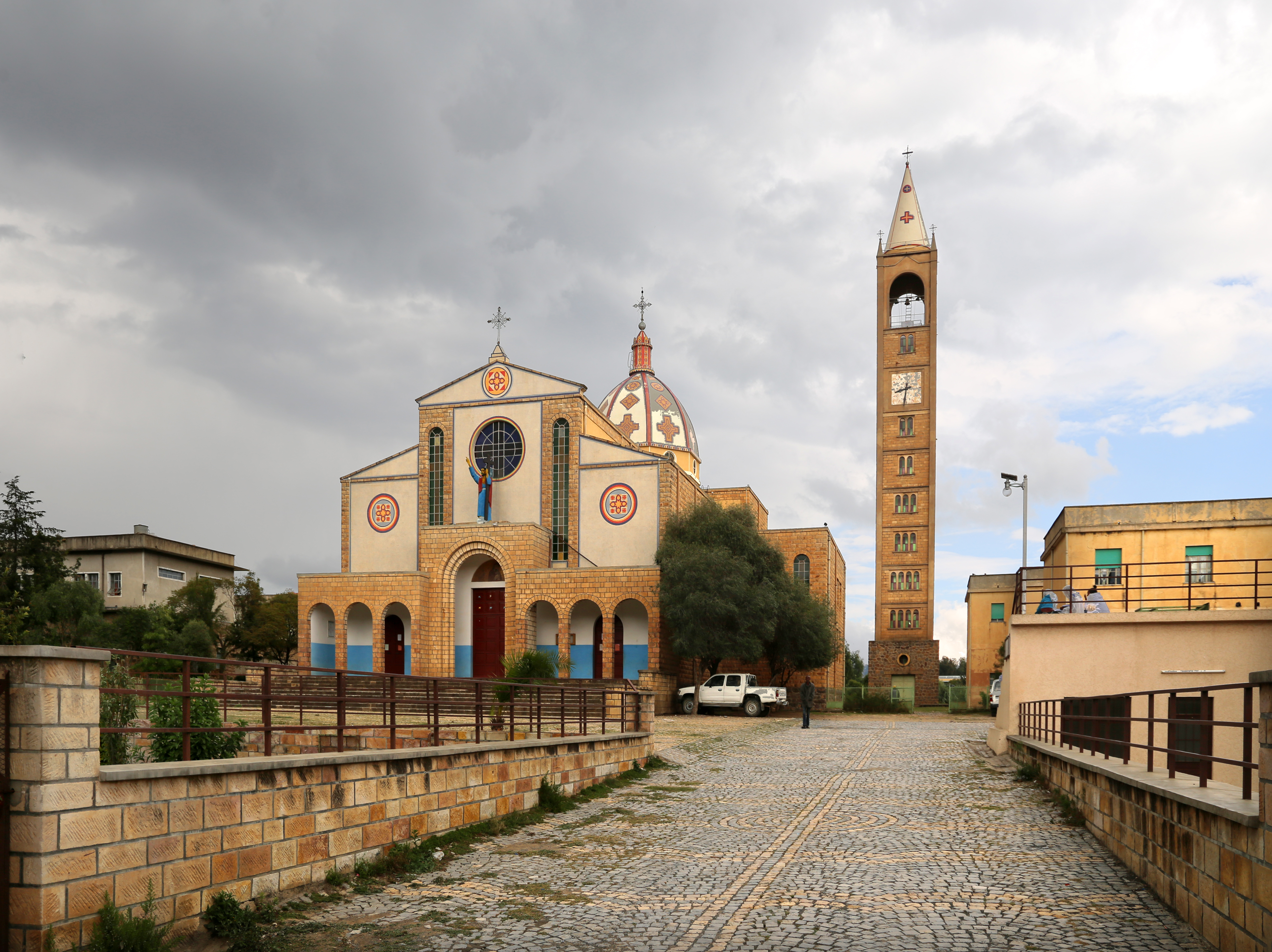 Cathedral of the Holy Saviour, Adigrat